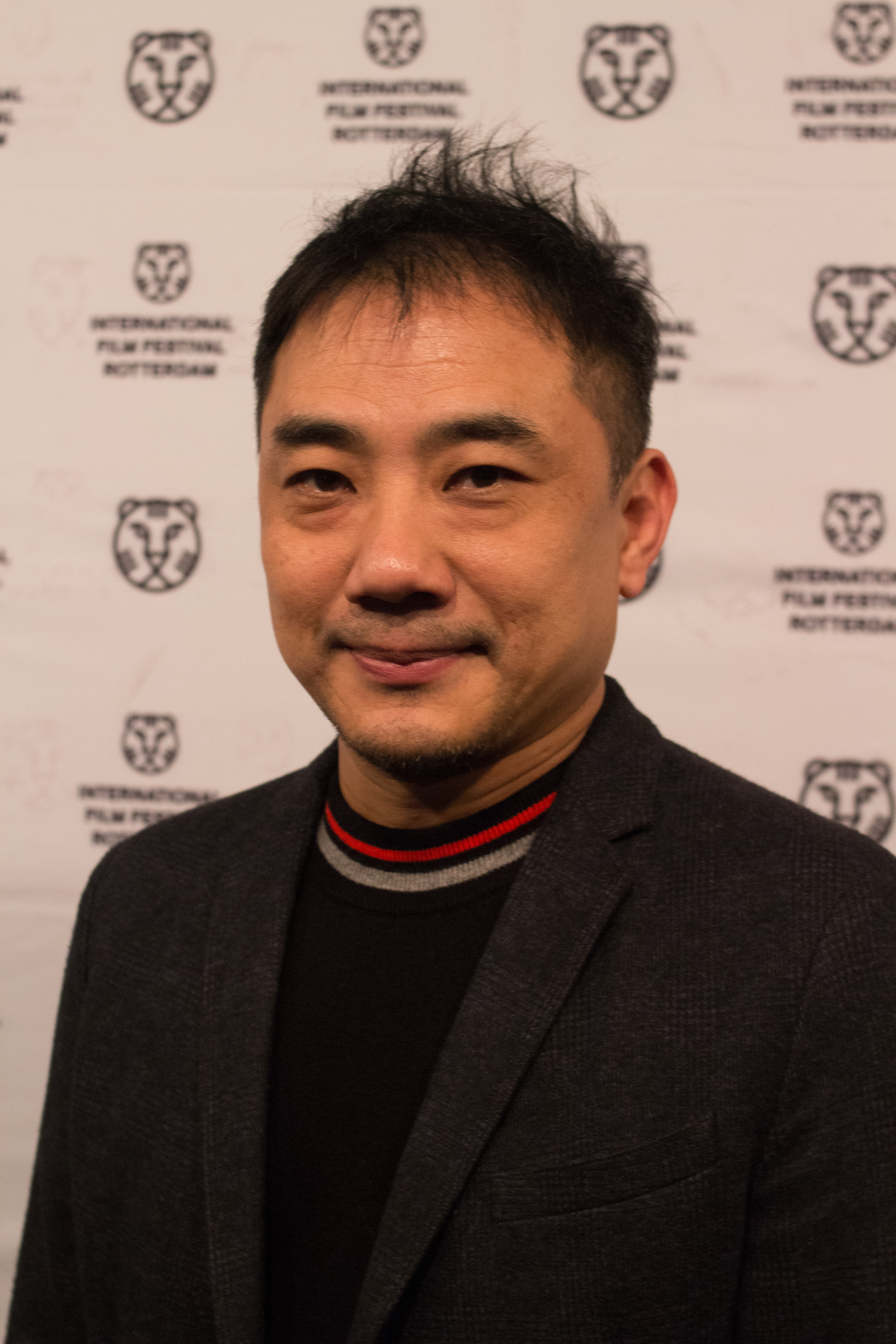 Hsiao Ya-chuan 蕭雅全 at the premier of Father to Son at the International Film Festival 2018